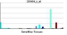 Gene expression pattern of the MME gene.